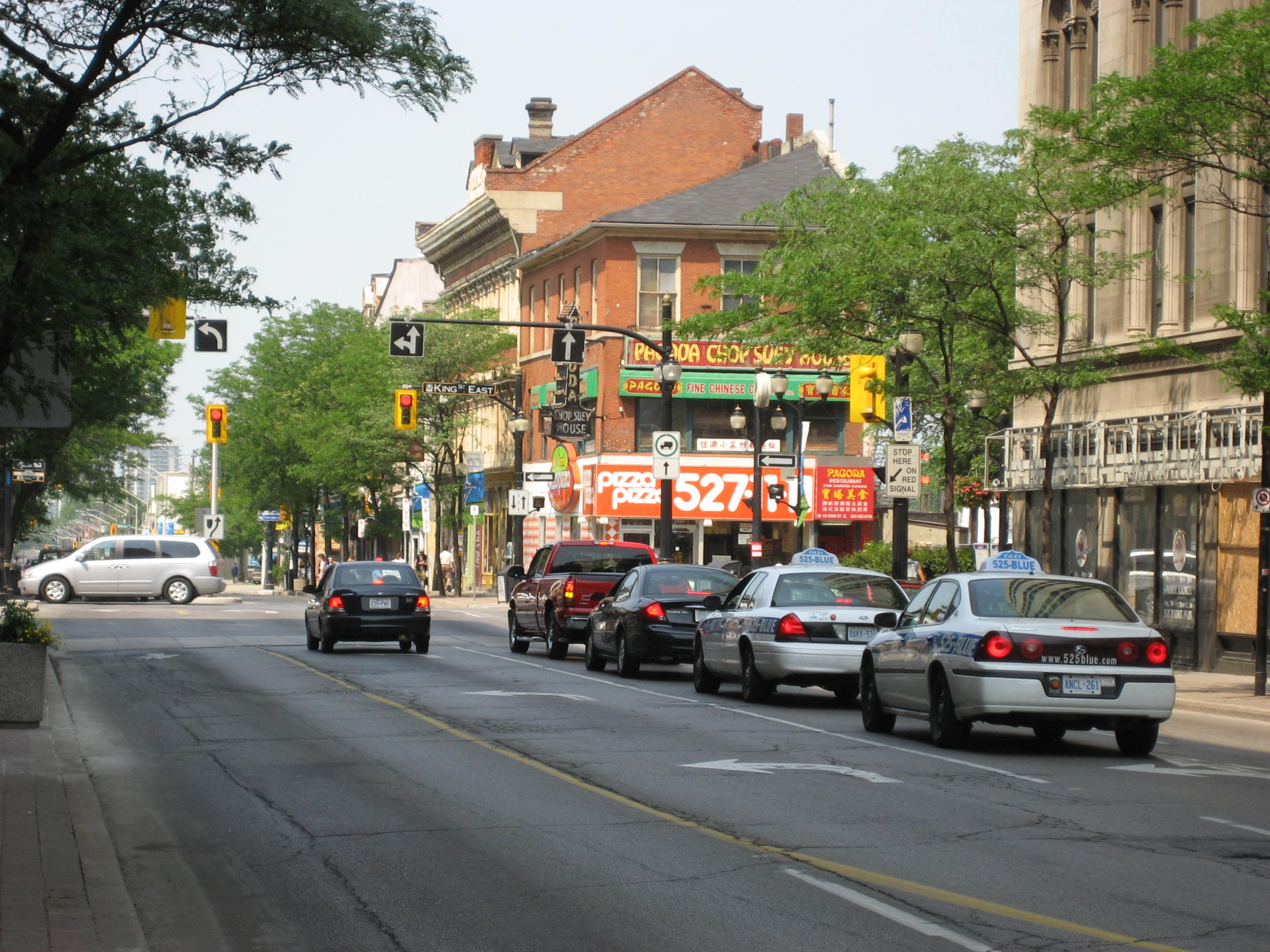 John Street South, downtown, Hamilton, Ontario